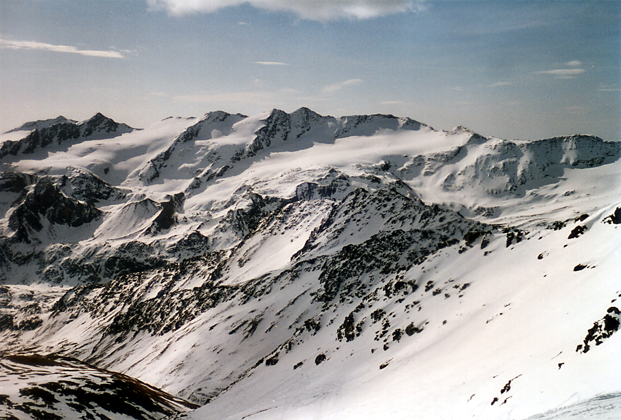 Veneziaspitze (3386m) from NW (Hintere Schöntaufspitze), Ortler-Alps, South Tyrol, Italy. Three peak just left from the middle, where the stone ridges drop to the valley. Cima Venezia has 3 tops, from left: CV III, CV II and the main summit at the western end. The glaciers between the ridges are (again left to right) Schranferner, Ultenmarktferner, Hohenferner